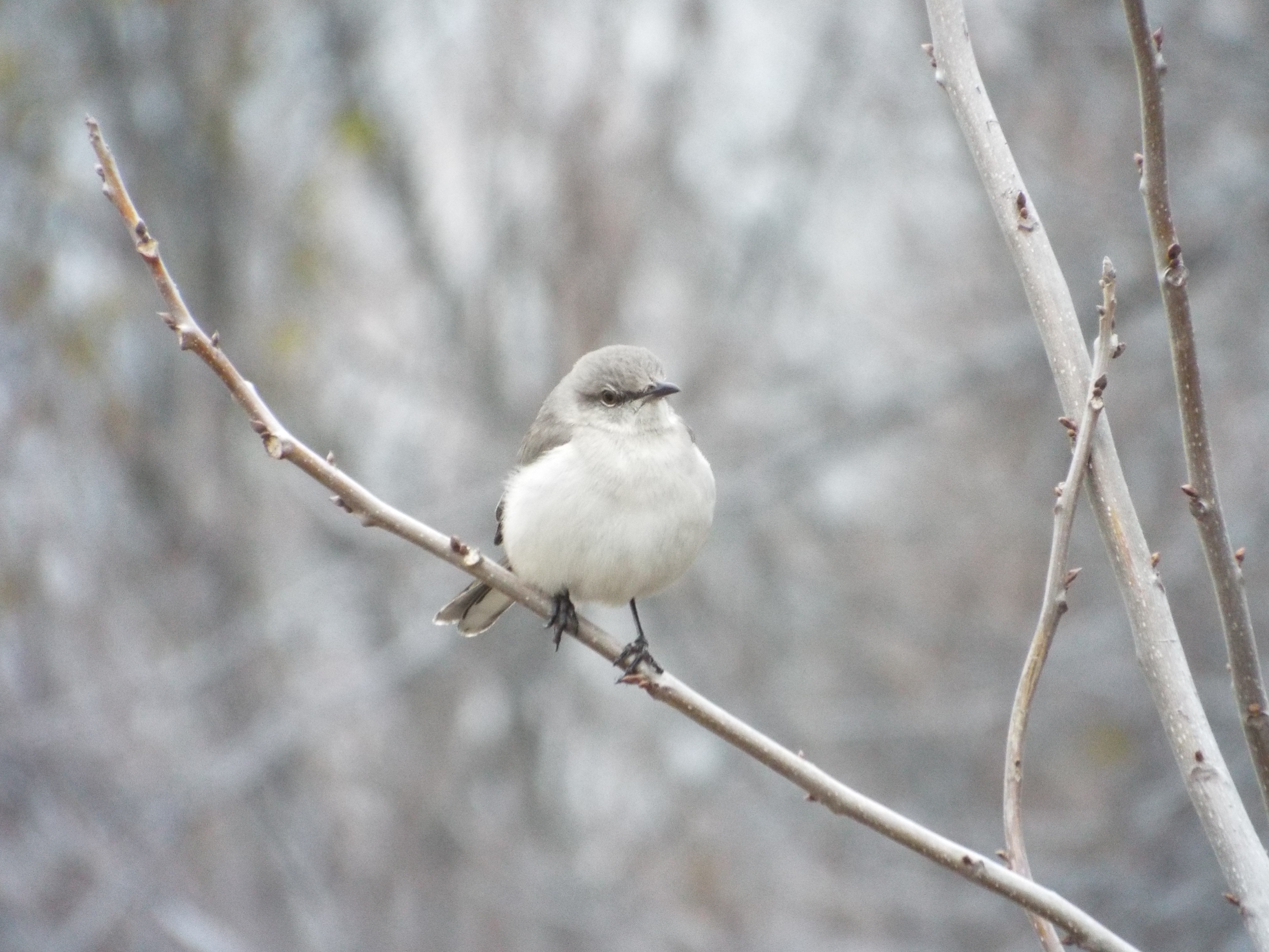 A northern mockingbird photographed on a cold day in Texas.